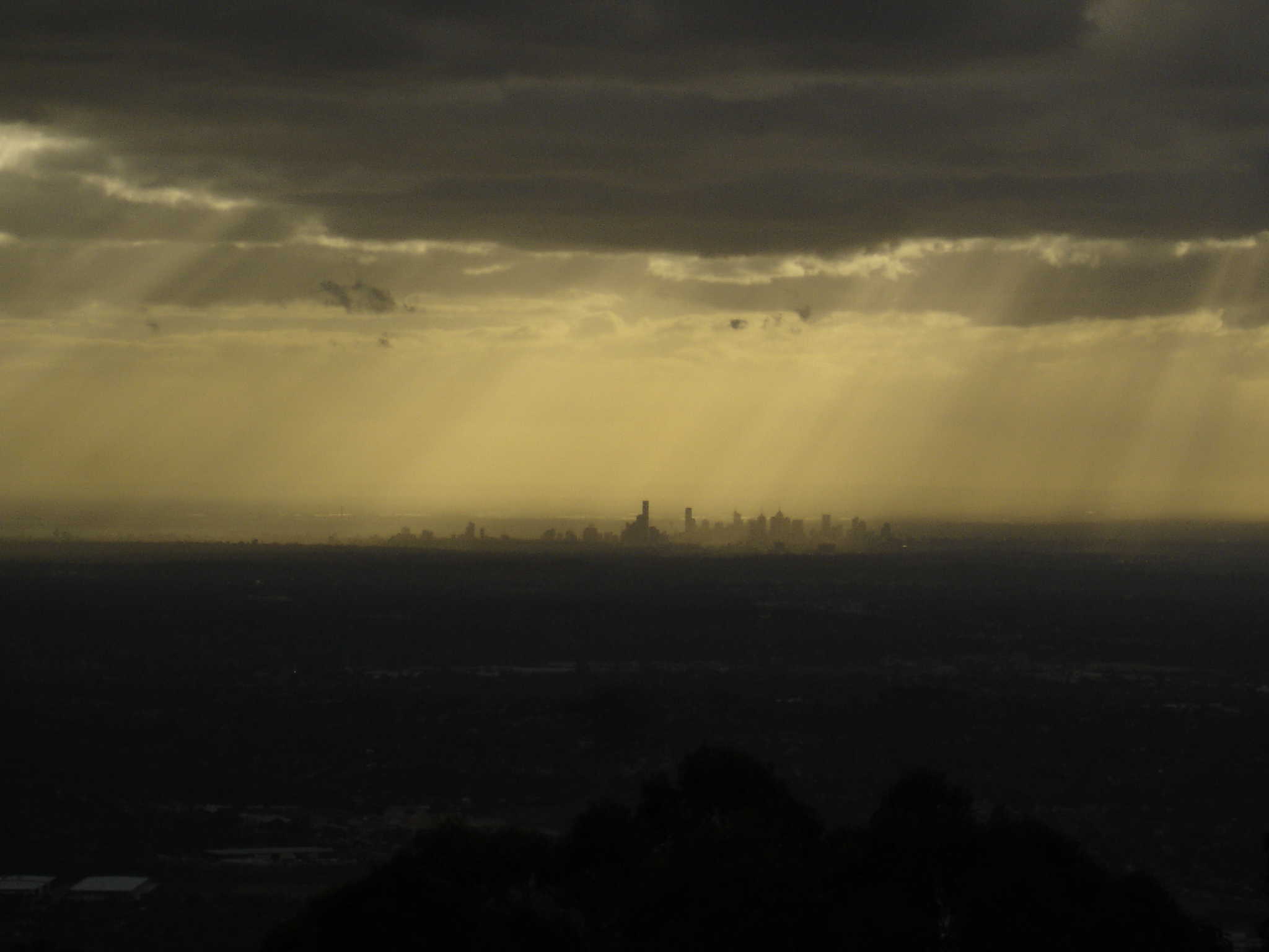 The skyscrapers of Melbourne City appear distant and small when seen from SkyHigh on Mount Dandenong.